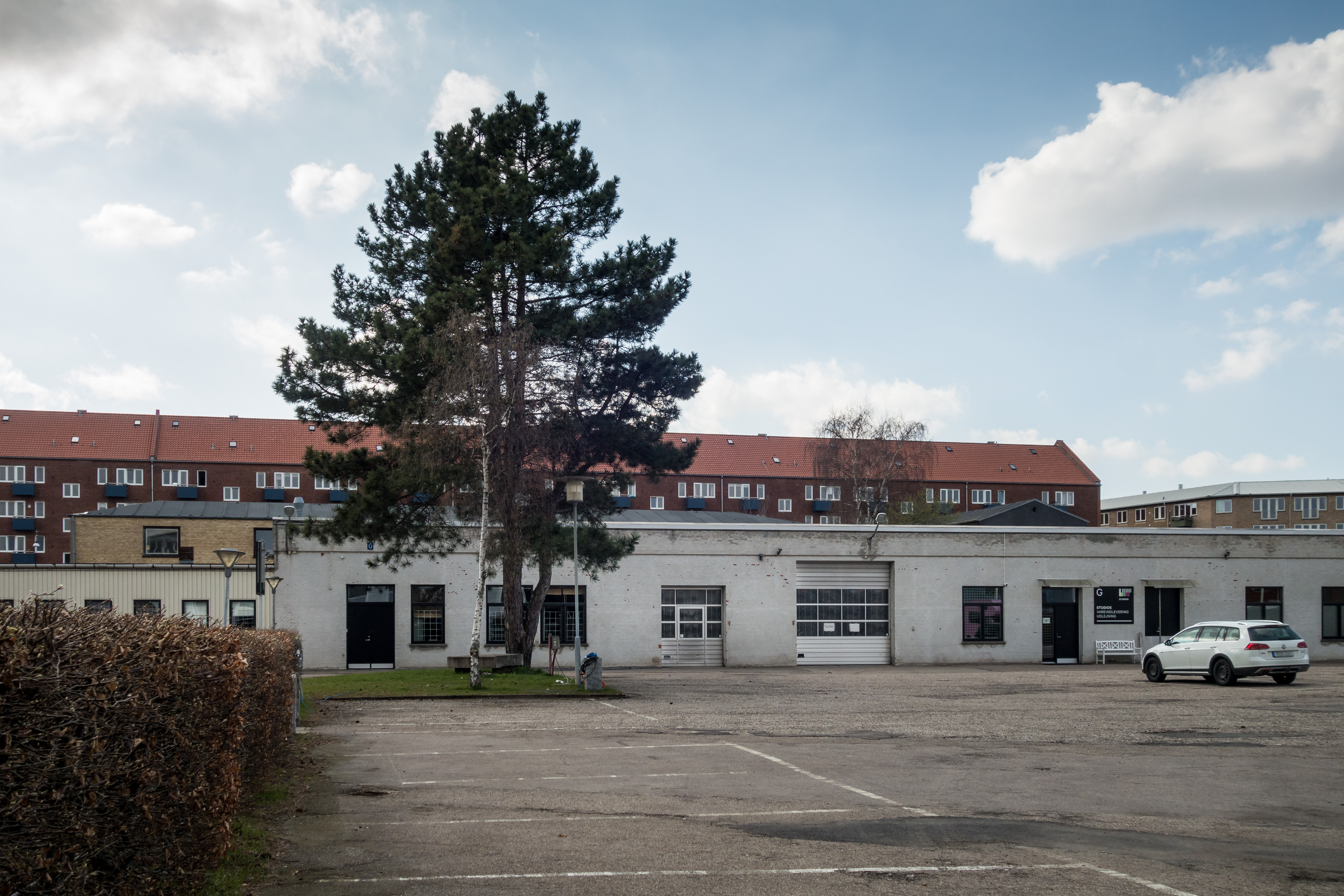 Address: Jenagade 22, 2300 Copenhagen, Denmark